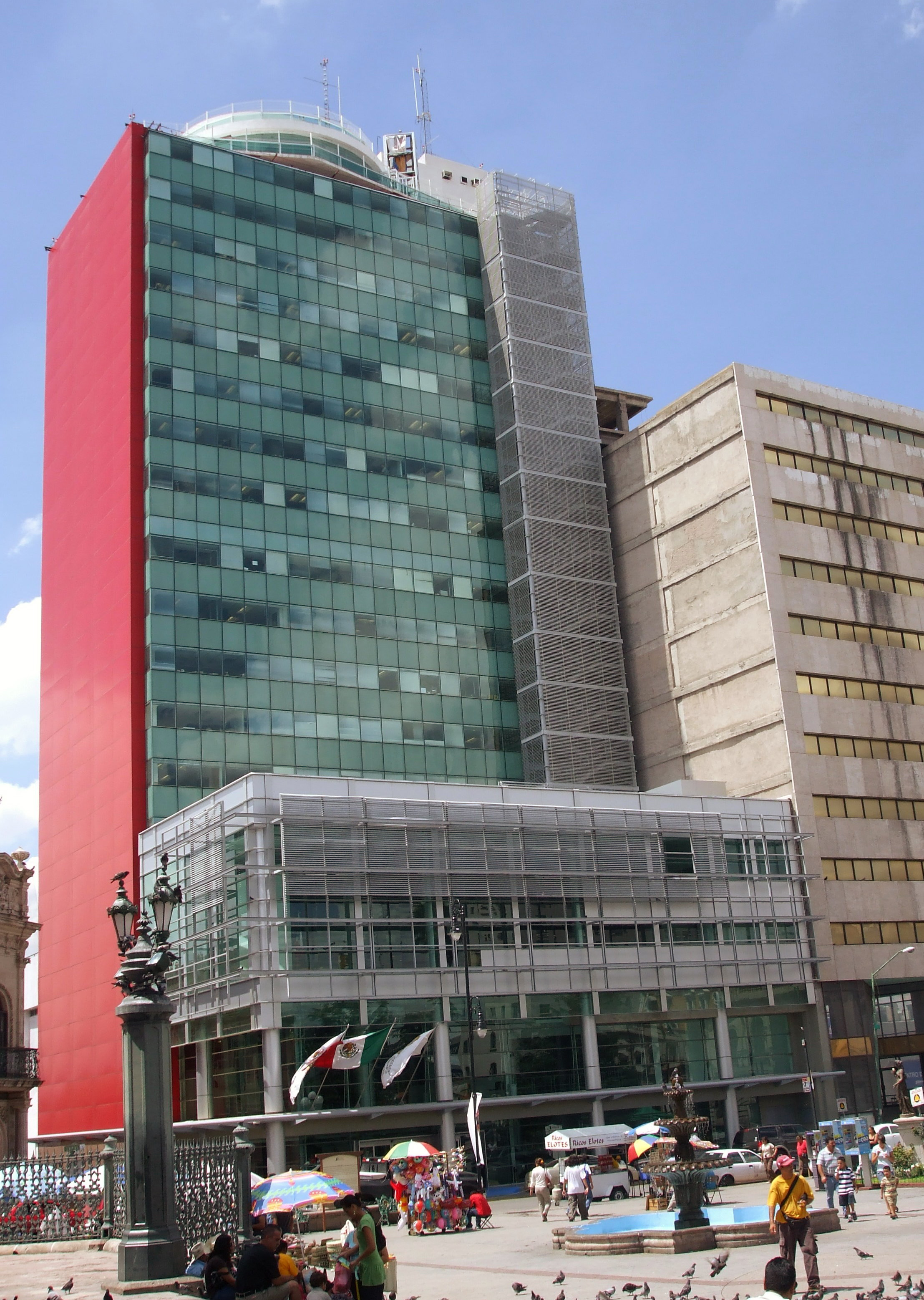 Legislative Tower, Chihuahua, Mexico